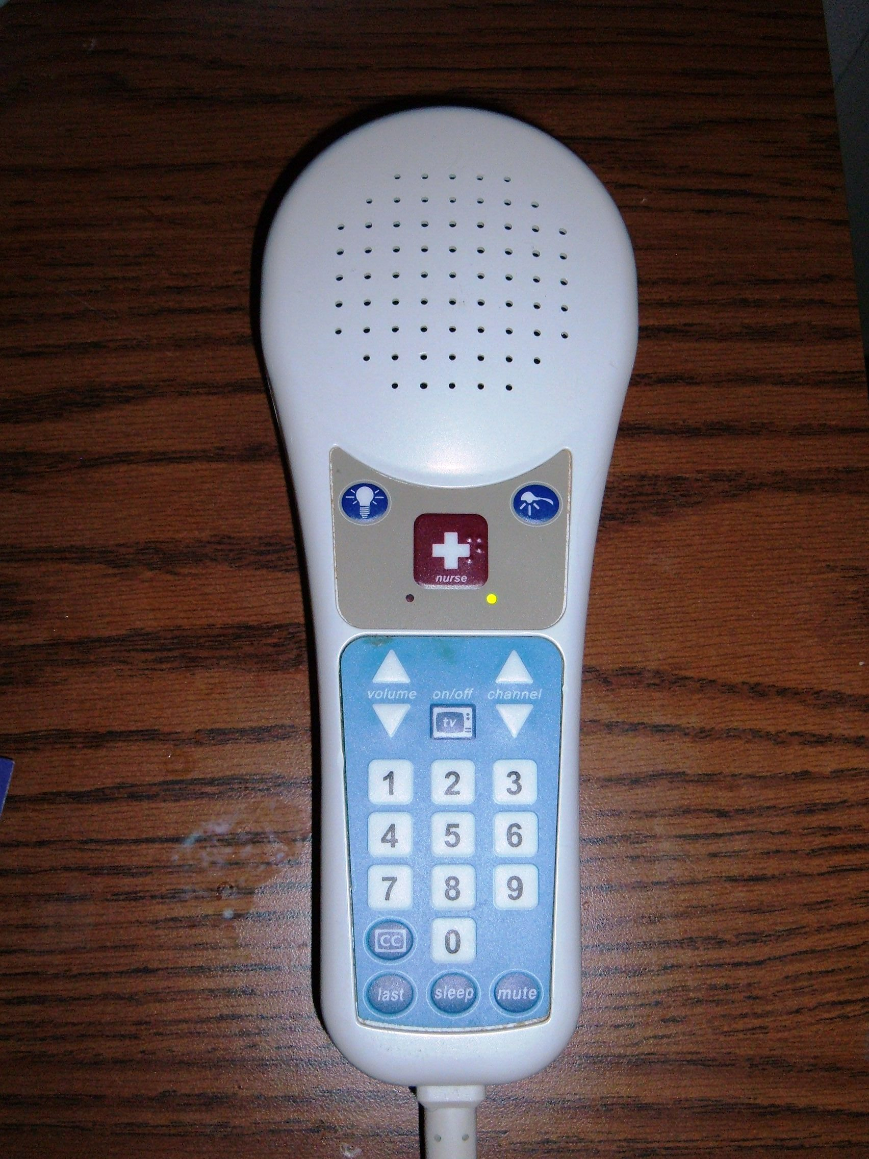 A Hill-Rom hospital bed TV remote control with speaker.